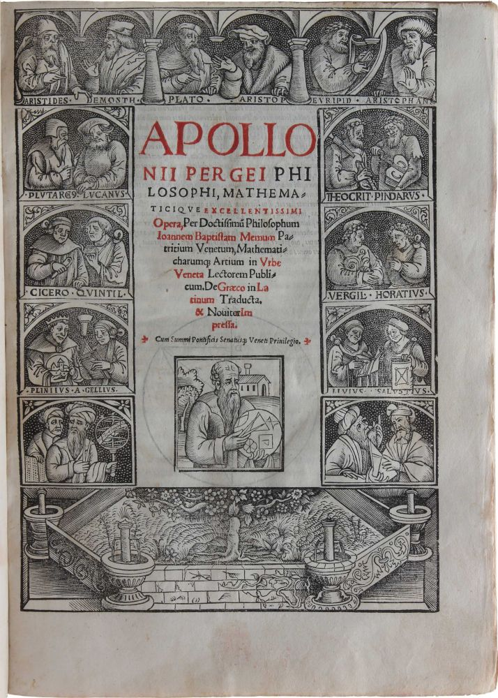 title page of APOLLONII PERGEI PHILOSOPHI, MATHEMATICIQUE EXCELLENTISSIMI Opera, per doctissimum Philosophum Ioannem Baptistam Memum patritium Venetum, mathematicharumque artium in urbe Veneta lectorum publicum. De Graeco in Latinum Traducta & Noviter impressa. Venice: Bernardinus Bindonus, 1537 Translation from Greek into Latin of the conics of Apollonius of Perga, books I to IV, by Giovanni Battista Memo (see Heath, A history of greeks mathematics vol II, 127), First printed edition.